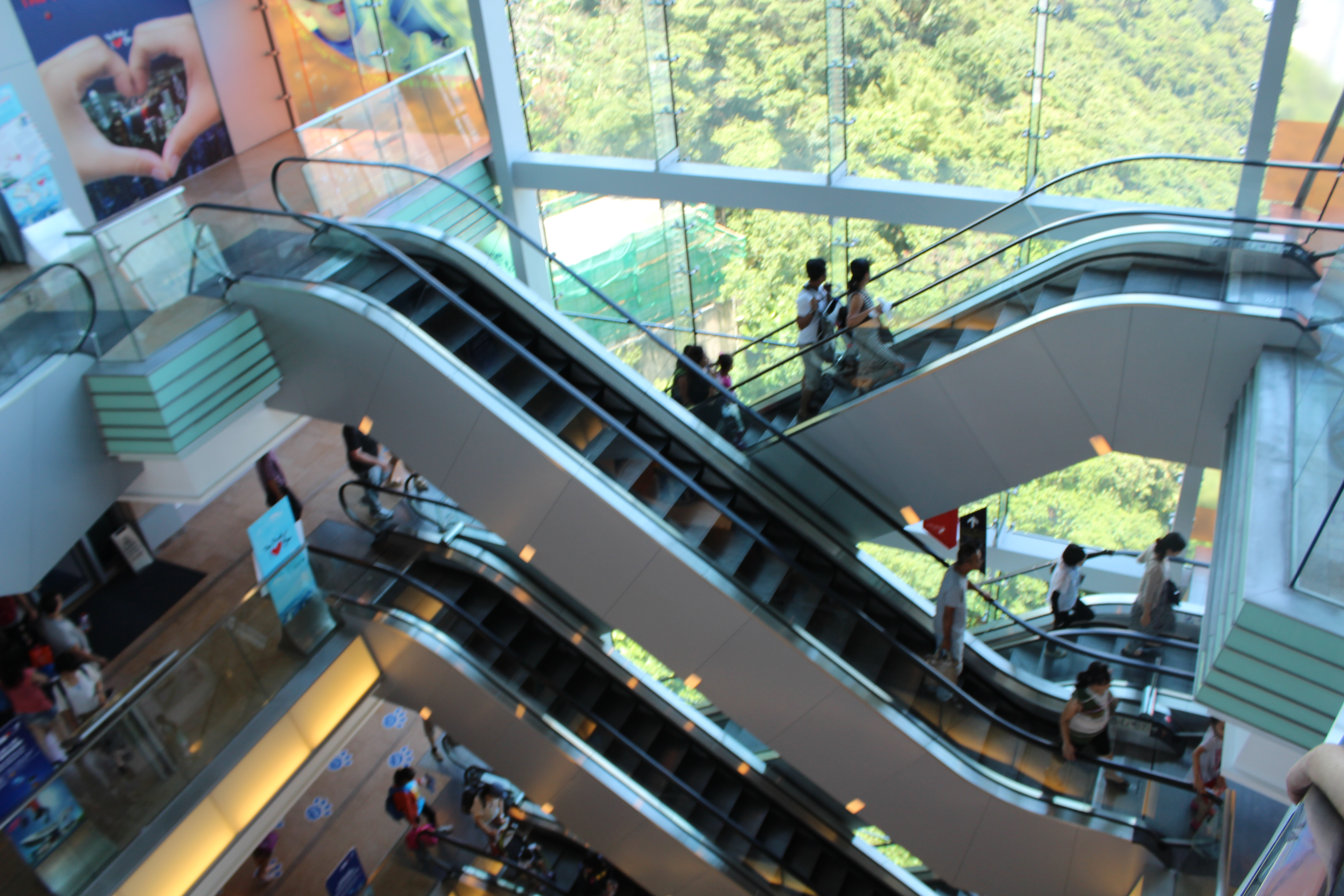 Peak Tower, Victoria Peak, Hong Kong